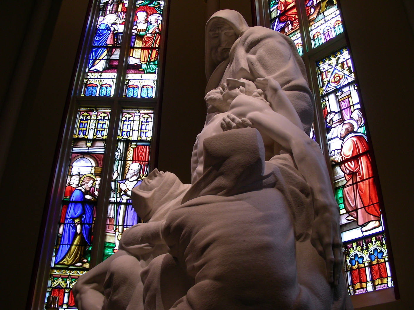 Ivan metrovic, Pieta, Basilica of The Sacred Heart